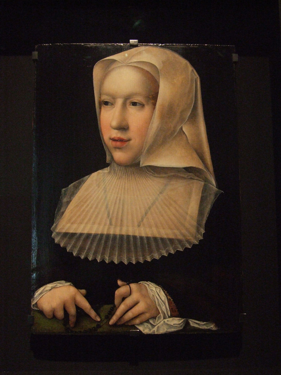 Category:Église de Brou, Bourg-en-Bresse, France - Painting at the museum